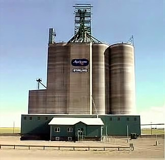 Stirling Grain elevator, Sterling, Alberta